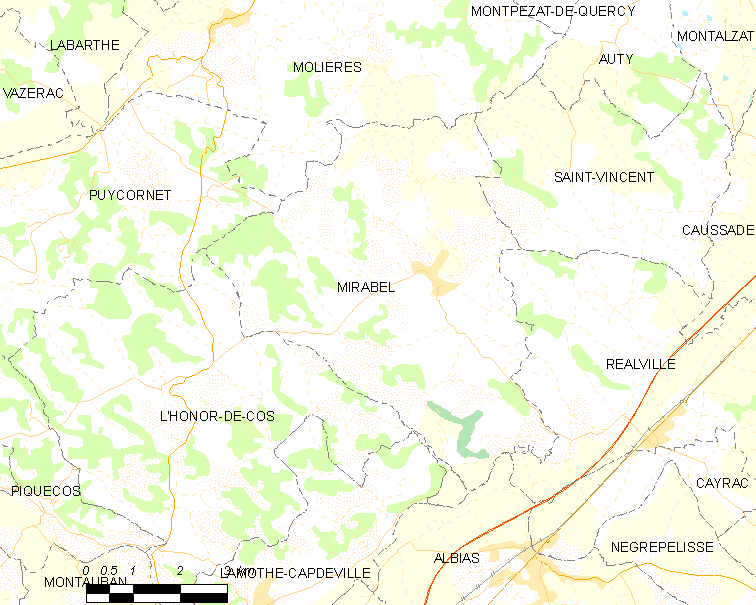 Map of French municipality Mirabel